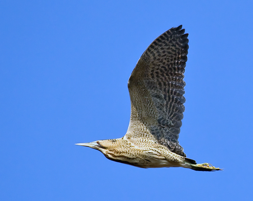 Botaurus stellaris flying,perhaps female,Illmitz (Austria)